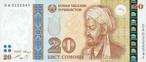 20 somoni banknote from Tajikistan which bears a portrait of Avicenna